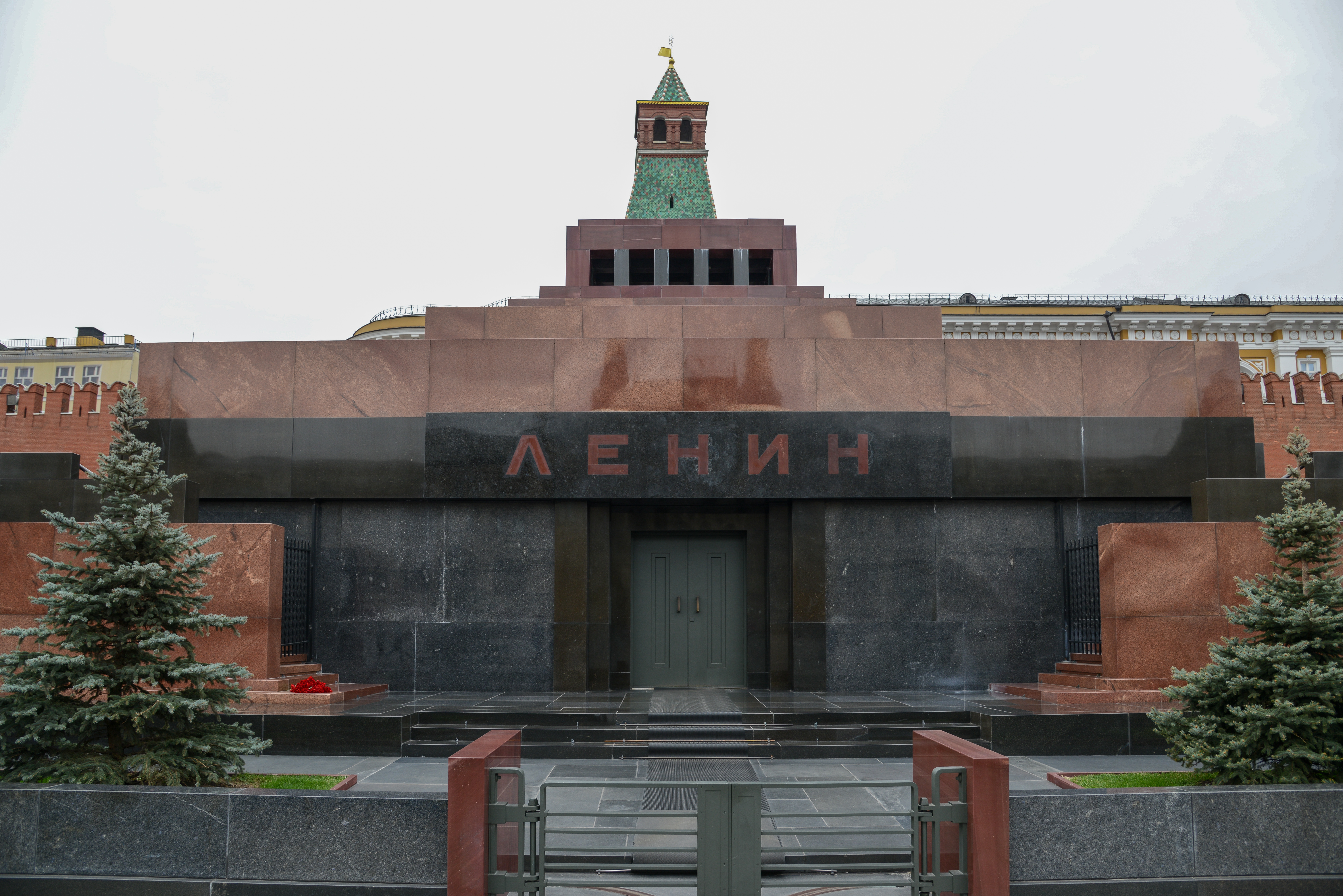 Lenin's Mausoleum (Russian: Мавзоле́й Ле́нина), also known as Lenin's Tomb, situated in Red Square in the center of Moscow, is the mausoleum that serves as the current resting place of Vladimir Lenin. His embalmed body has been on public display there since shortly after his death in 1924 (with rare exceptions in wartime). Aleksey Shchusev's diminutive but monumental granite structure incorporates some elements from ancient mausoleums, such as the Step Pyramid and the Tomb of Cyrus the Great.